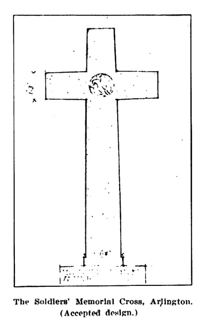 Design for the Argonne Cross, approved by the U.S. Commission of Fine Arts in 1921. The cross' design was submitted by the American Women's Legion, a patriotic women's group. The simple memorial was erected in Arlington National Cemetery in Arlington County, Virginia, in 1923.